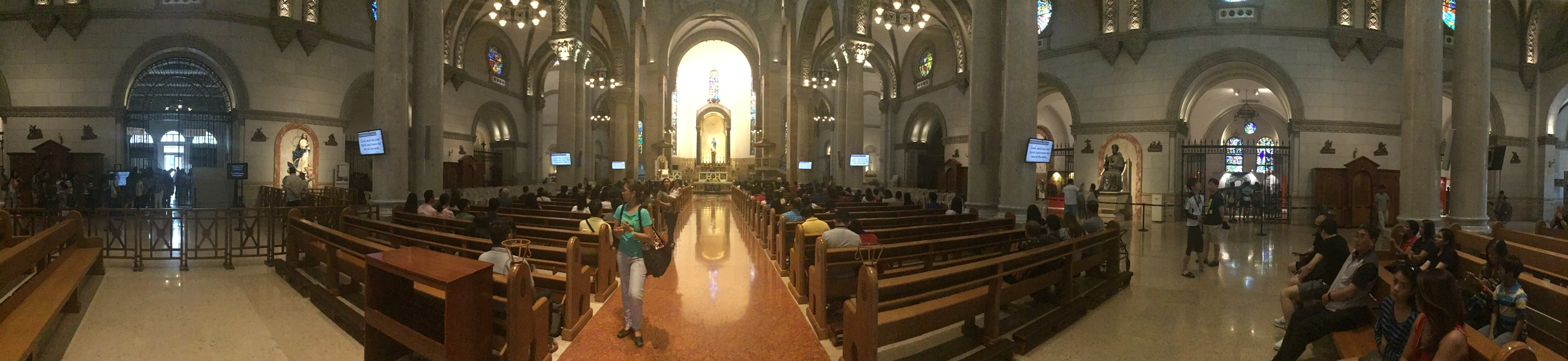 Manila Cathedral Panorama